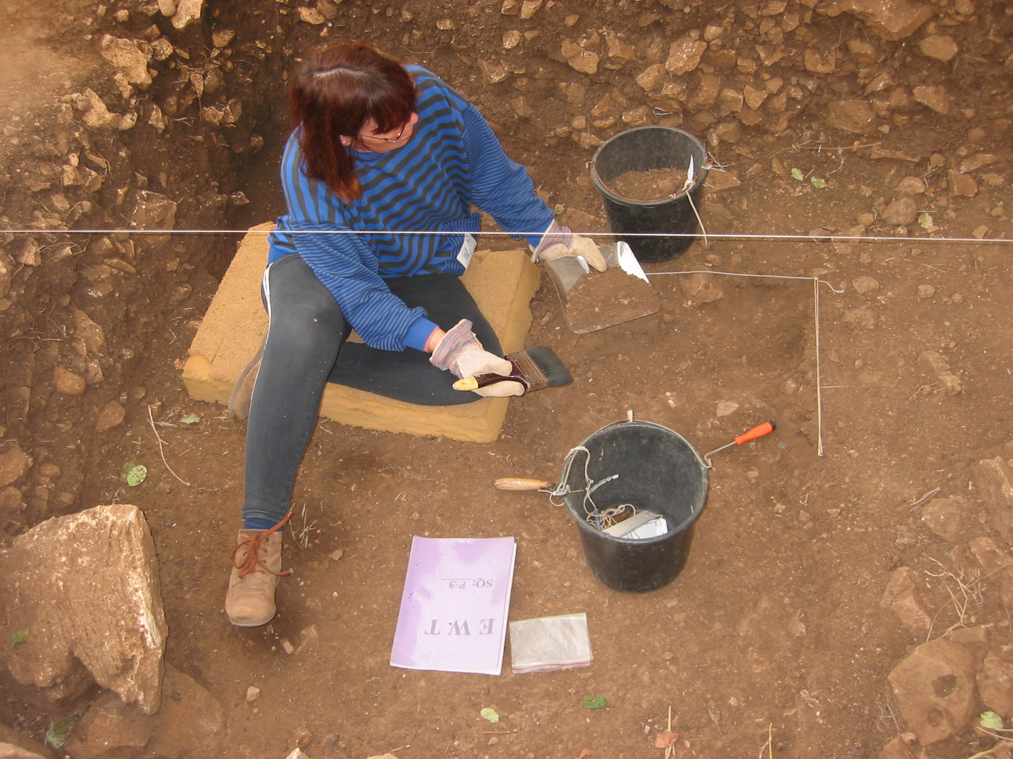 Excavation in El-Wad – Cave Mount Carmel Israel